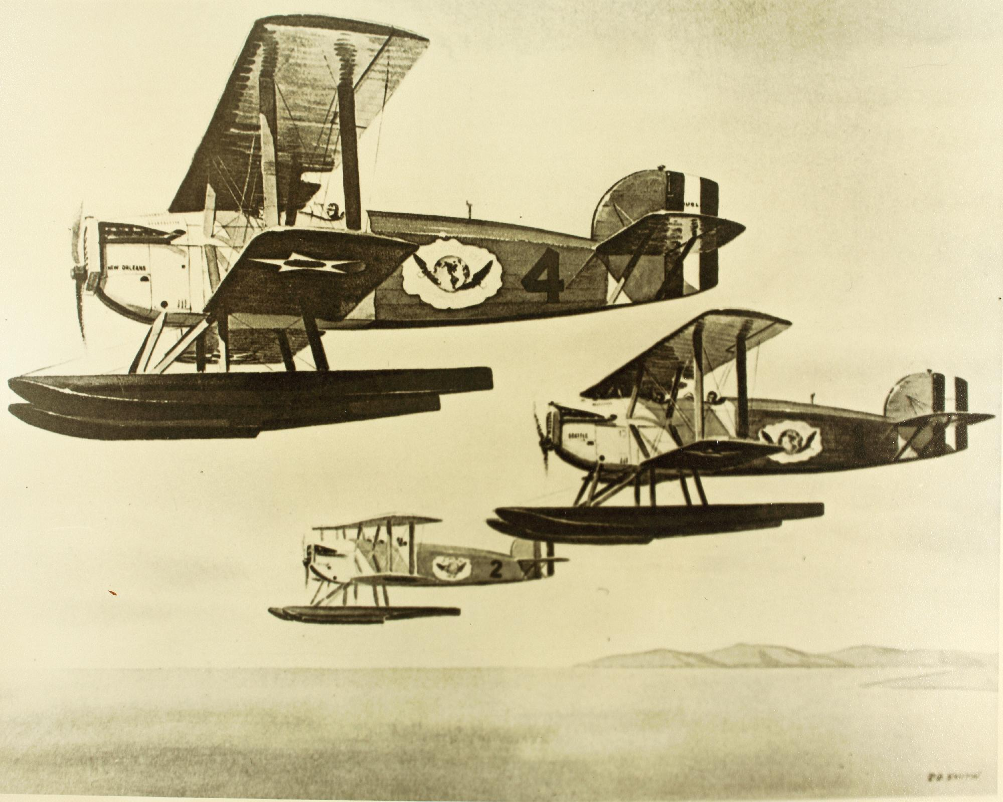 Catalog #: 10_0015484 Title: Douglas World Cruise Date: 1924 Additional Information: Douglas Around the World Flight Douglas World Cruiser Tags: Douglas World Cruise, Douglas Around the World Flight Douglas World Cruiser , 1924 Repository: San Diego Air and Space Museum Archive